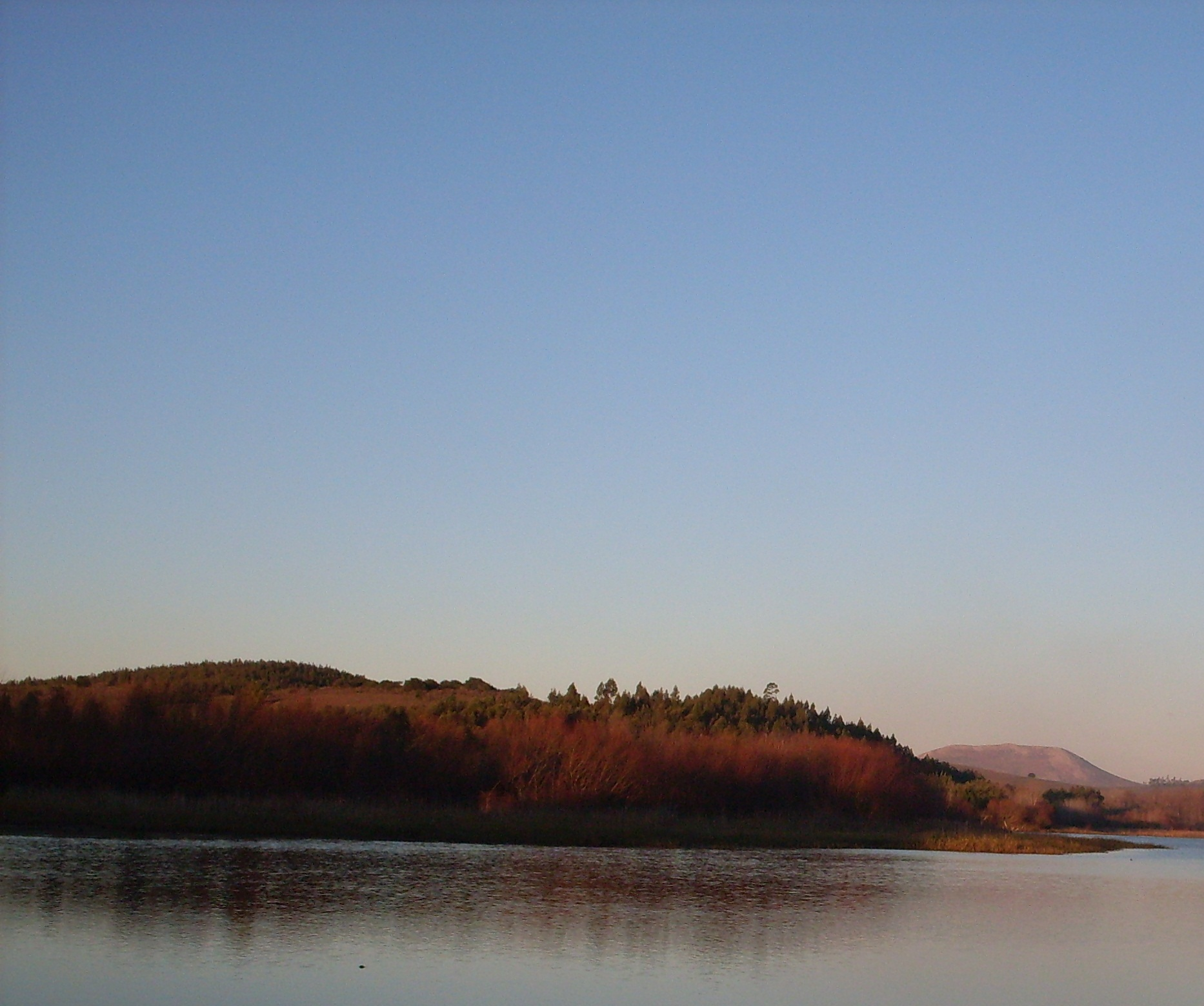 Dusk view from OSE Park, Minas, LA, Uruguay.